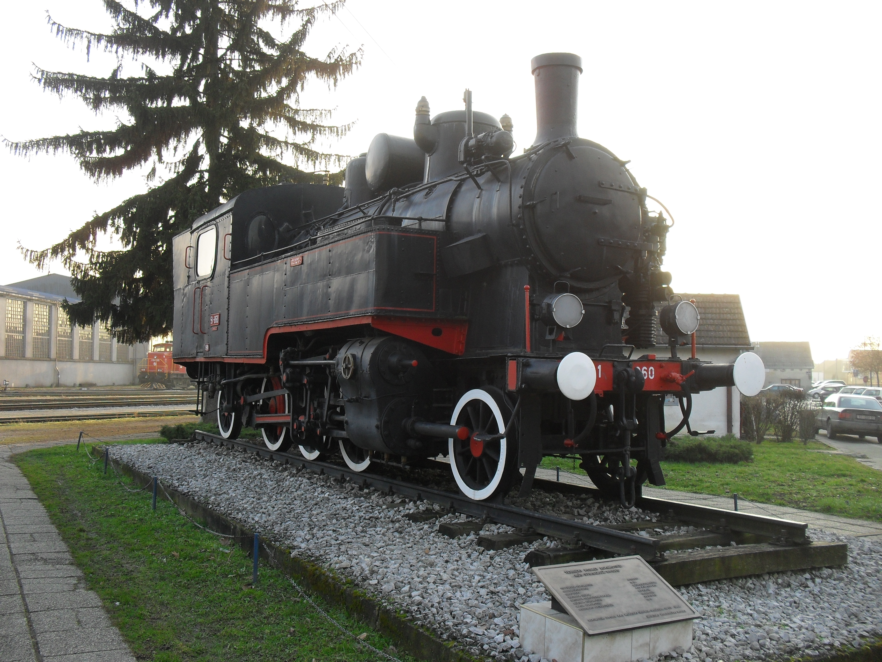 Exhibition of locomotive at train station Bjelovar, Croatia - (MÁV 375.912 / JŽ 51-060).